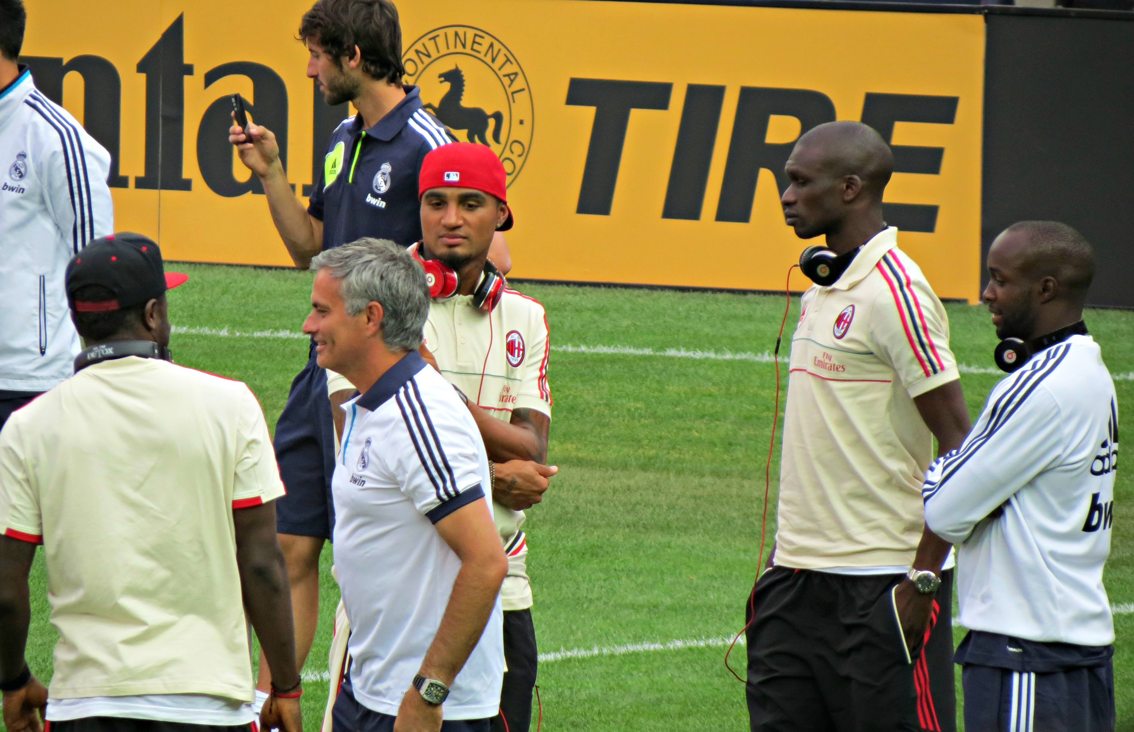 Real Madrid coach Jose Mourinho with Kevin-Prince Boateng, Bakaye Traore and Lassana Diarra.